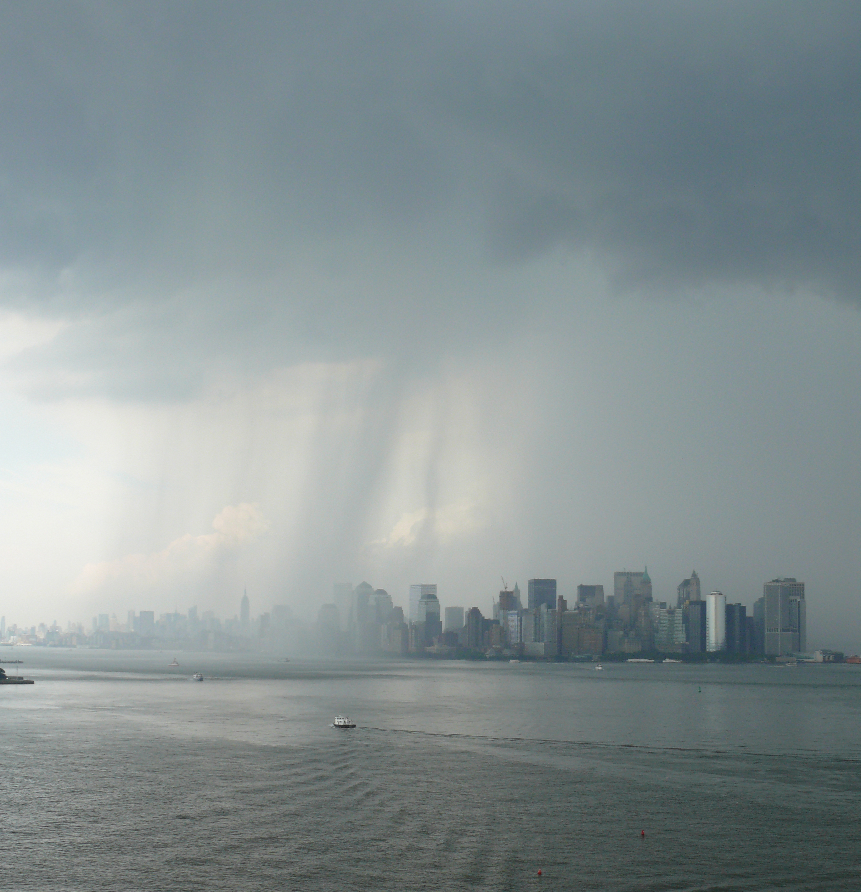 Rain over the Hudson River with the Manhattan skyline in the background as seen from the Statue of Liberty.